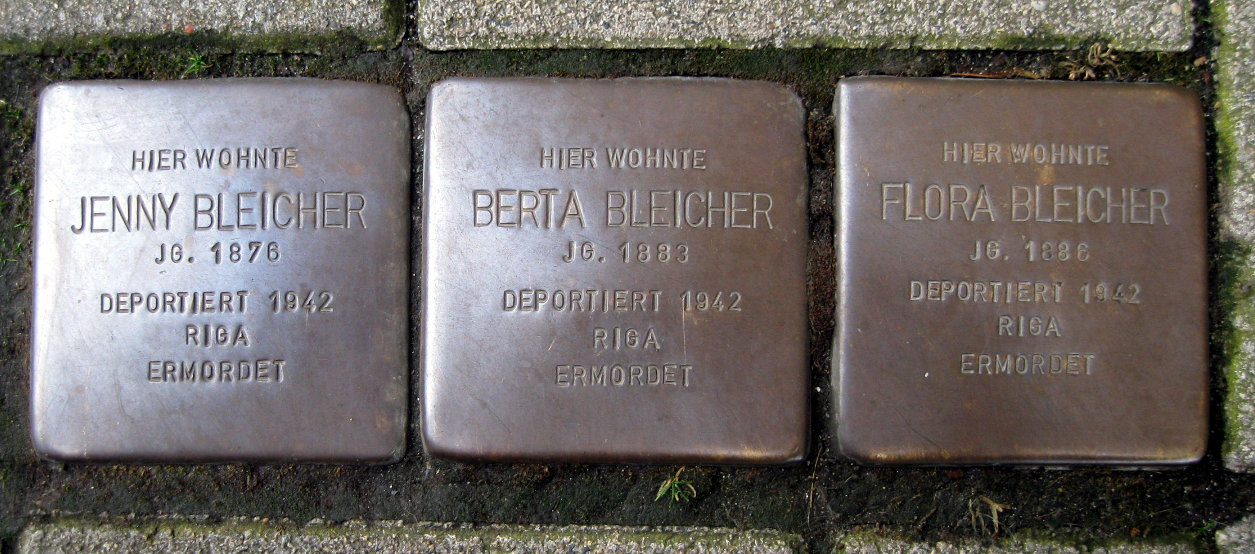 Stolpersteine at house Stolzestraße 19 in Dortmund, Germany